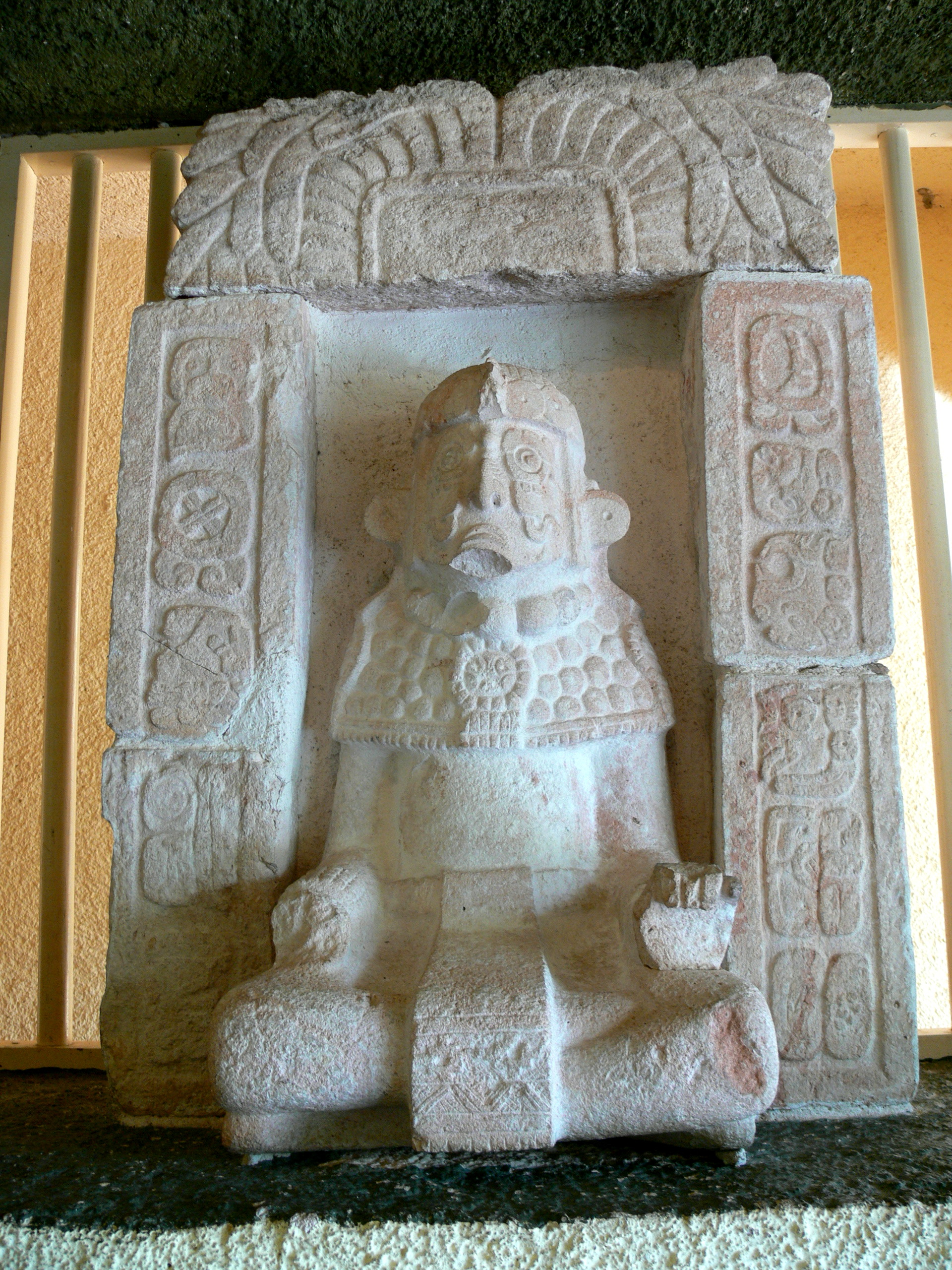 Uxmal ( Yucatan ). Museum: Figur as part of a facade, showing a ruler or dignitary with tattooed face